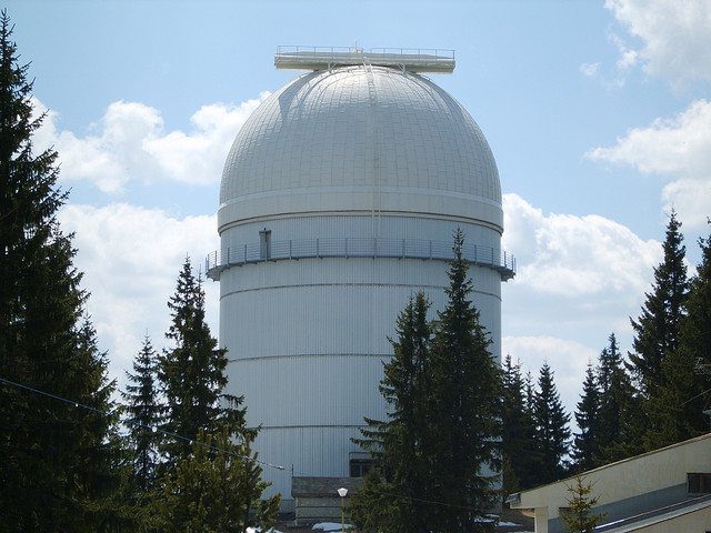 The Rozhen observatory's 2m telescope dome in Bulgaria.